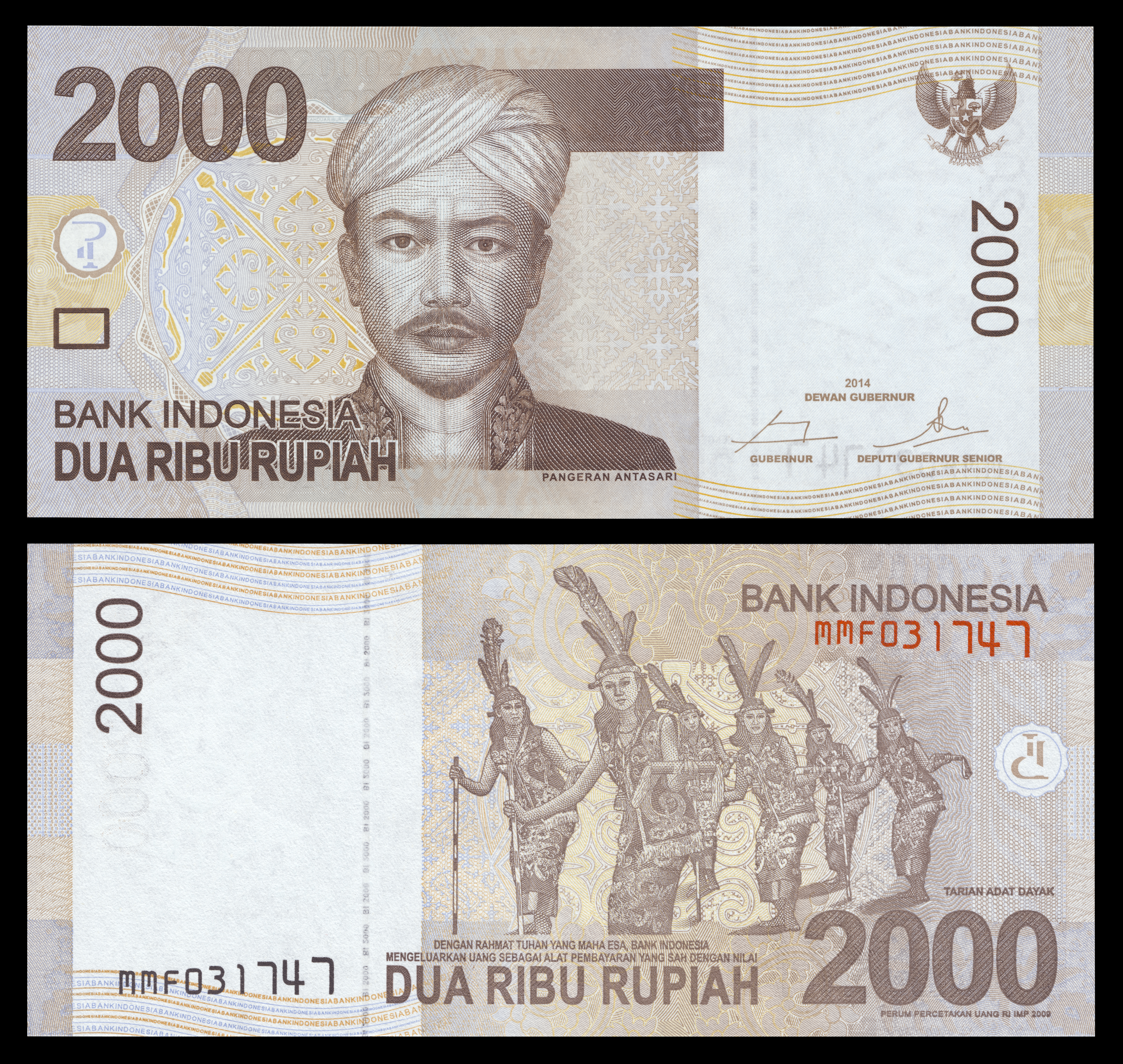 2000 rupiah bill, 2014 series, processed, obverse+reverse